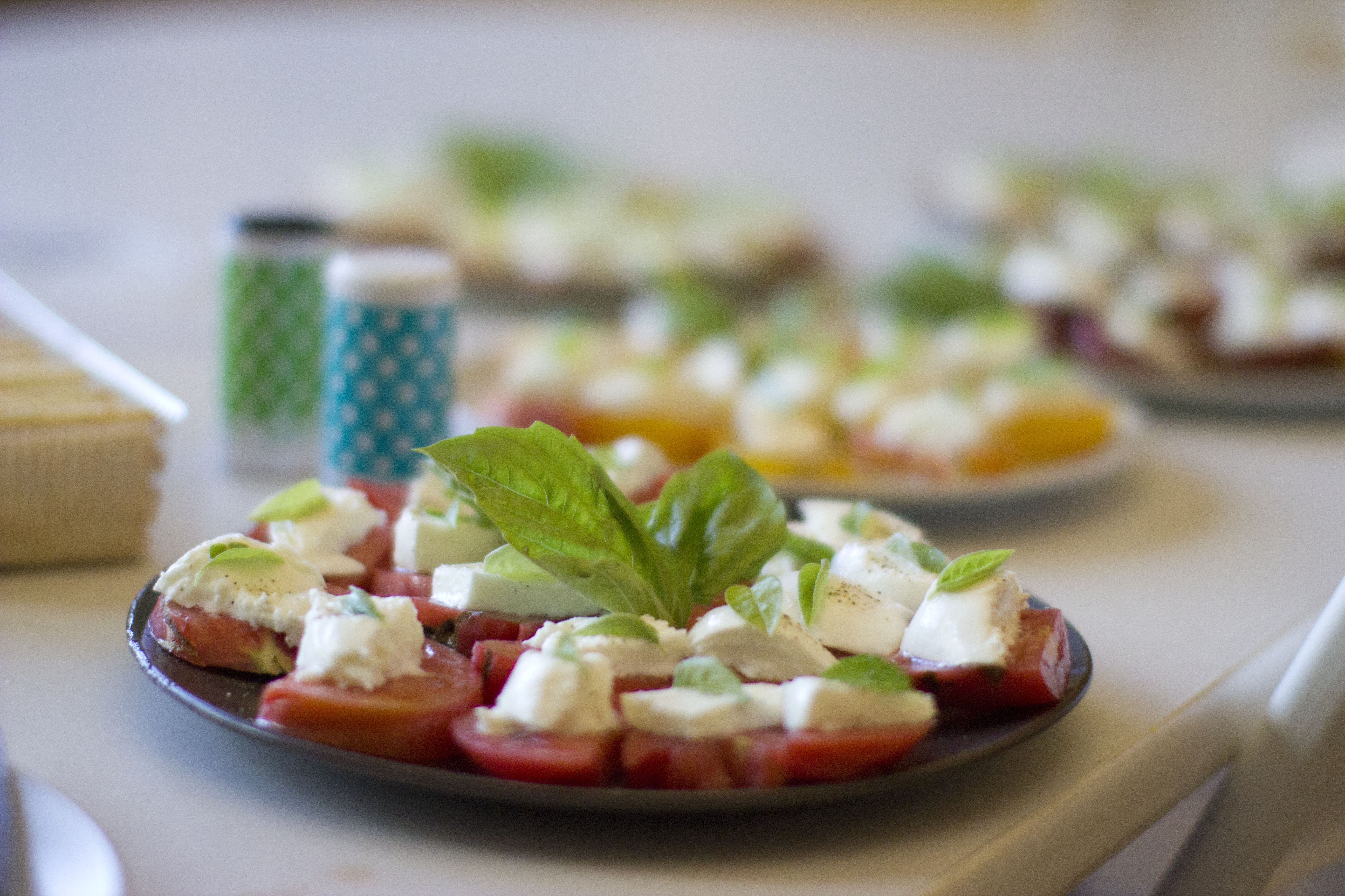 Insalata Caprese